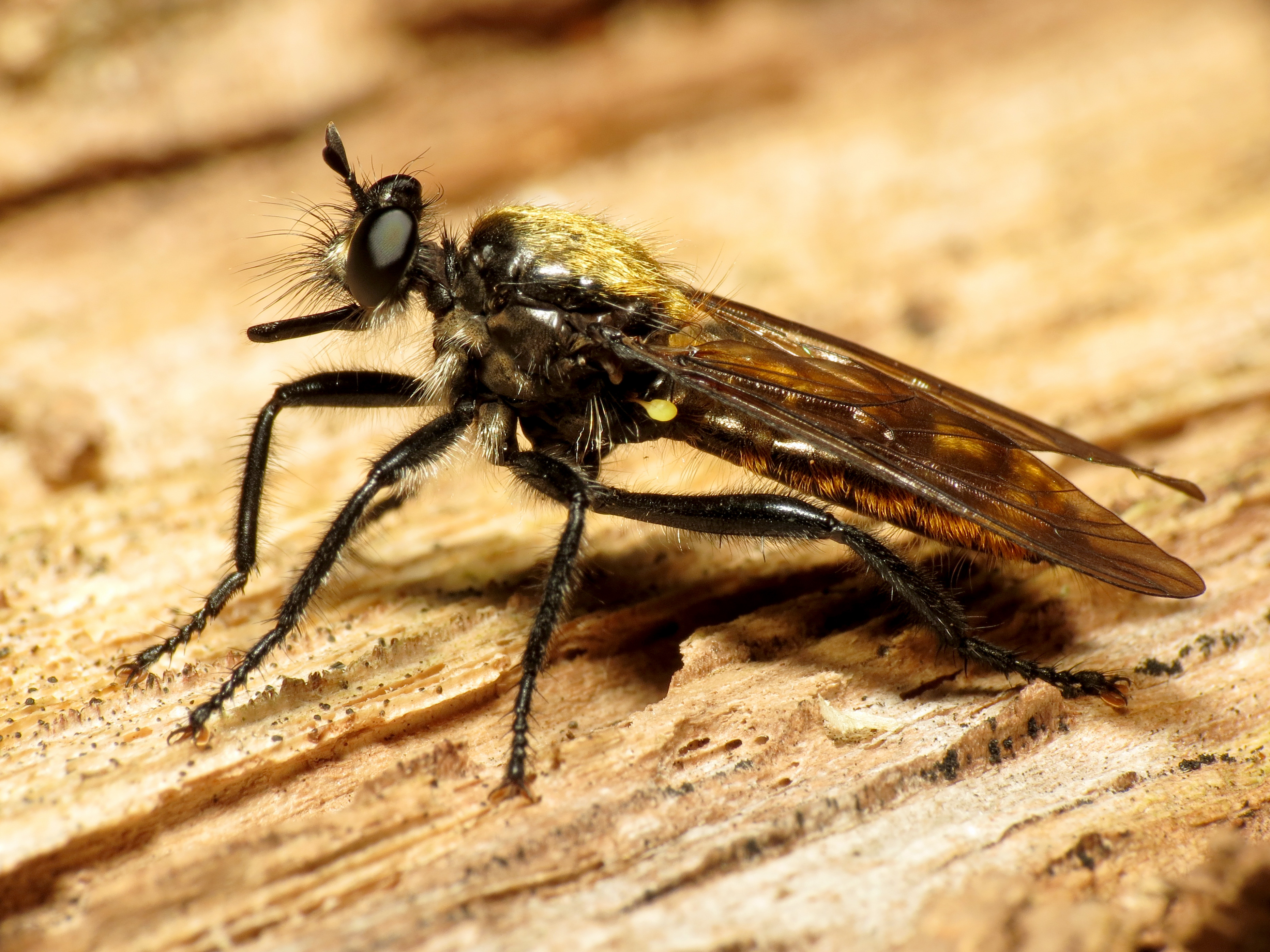 Laphria sp. Rock Creek Park, Washington, DC, USA.